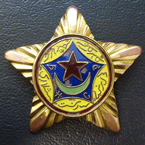 Нагрудный_знак_за_борьбу_с_басмачеством_БНСР